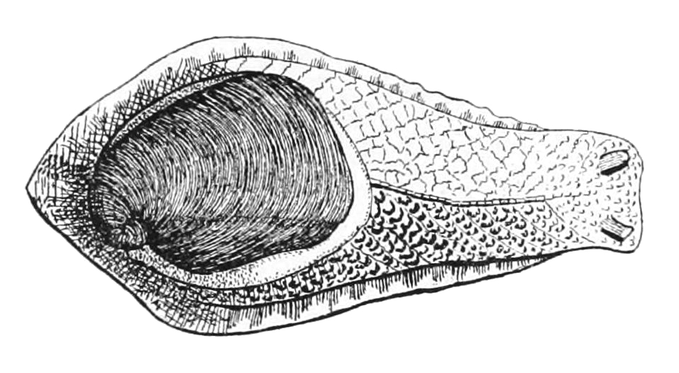 Drawing of dorsal view of alcohol preserved specimen of Schizoglossa novoseelandica.